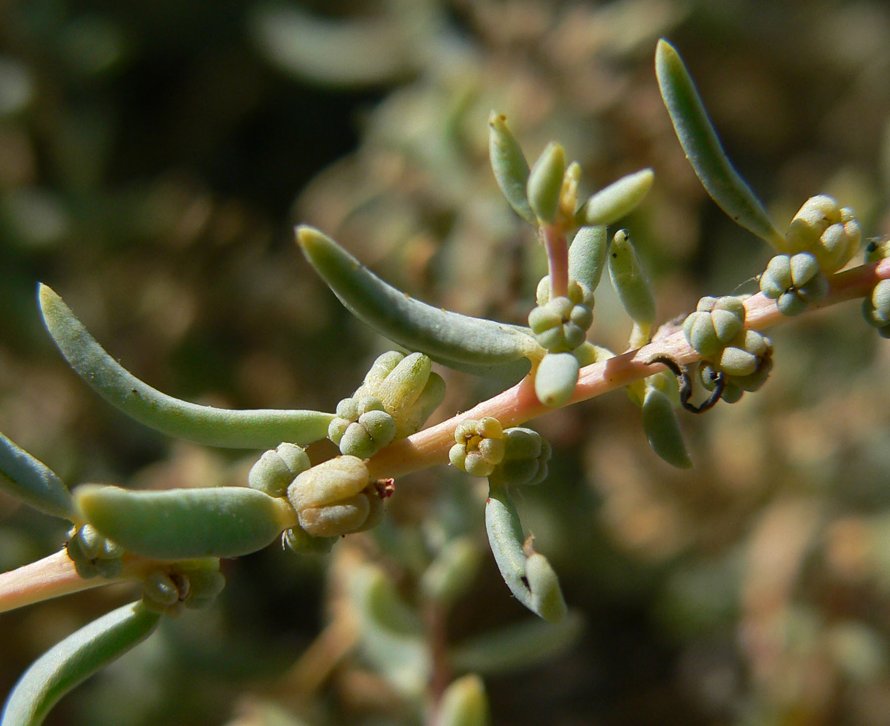 Suaeda nigra at Point of Rocks Springs, Ash Meadows National Wildlife Refuge, southern Nevada